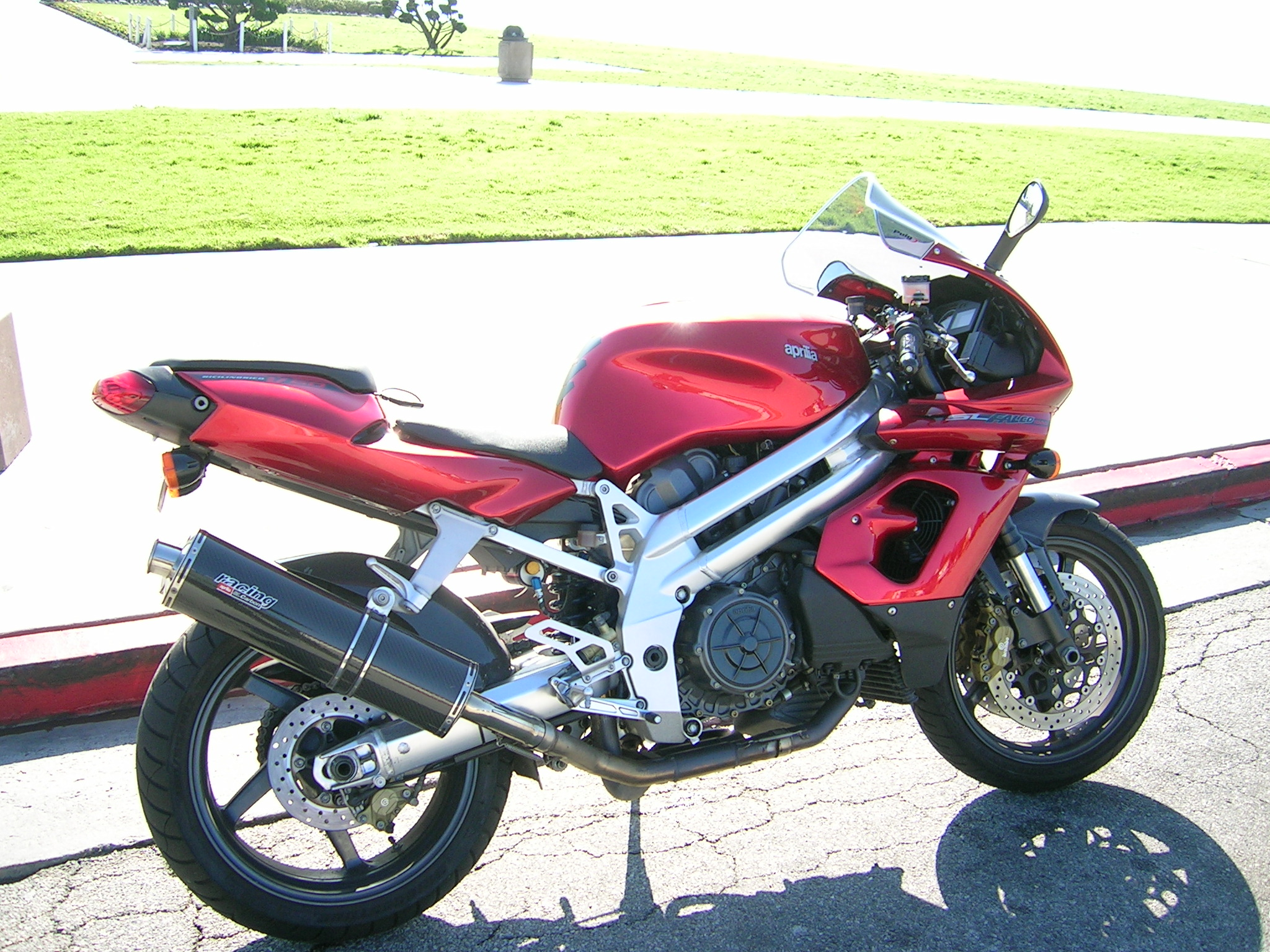 2000 Aprilia Falco by GB Woodward III